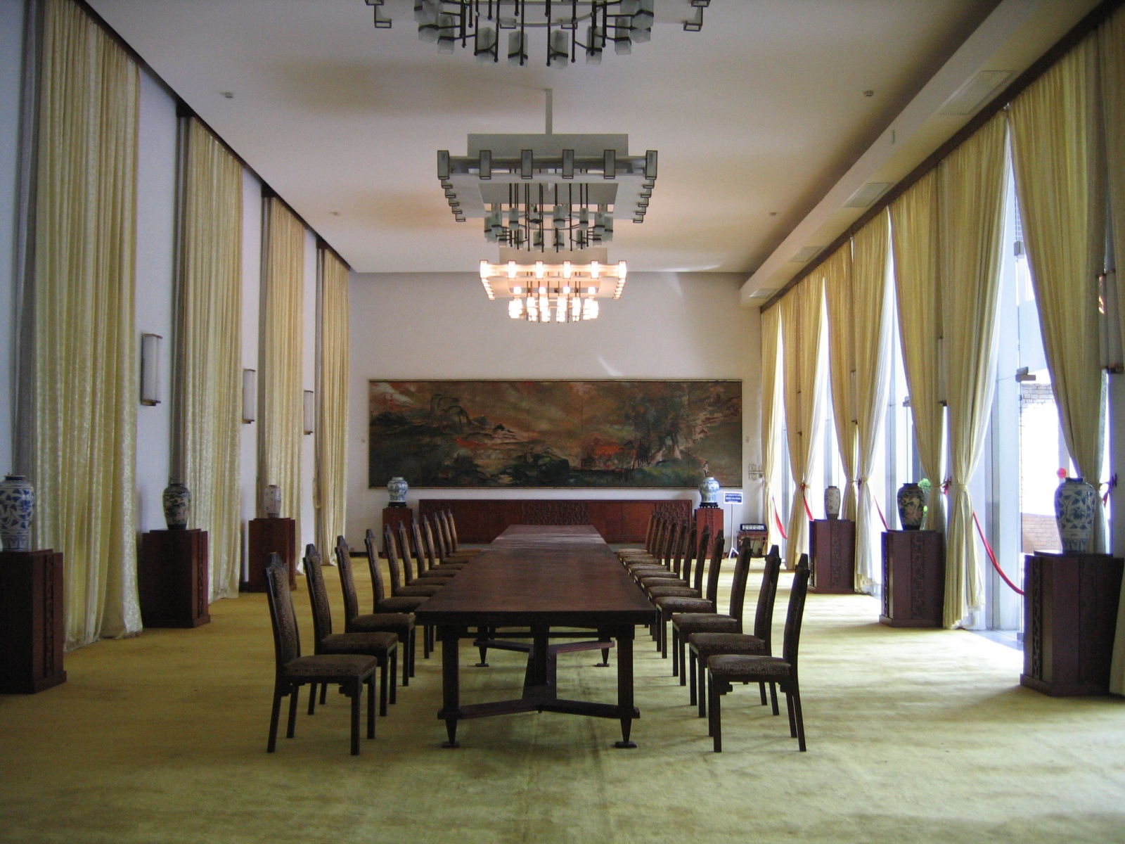 Banquet Room at Reunification Palace, Ho Chi Minh City, Vietnam.